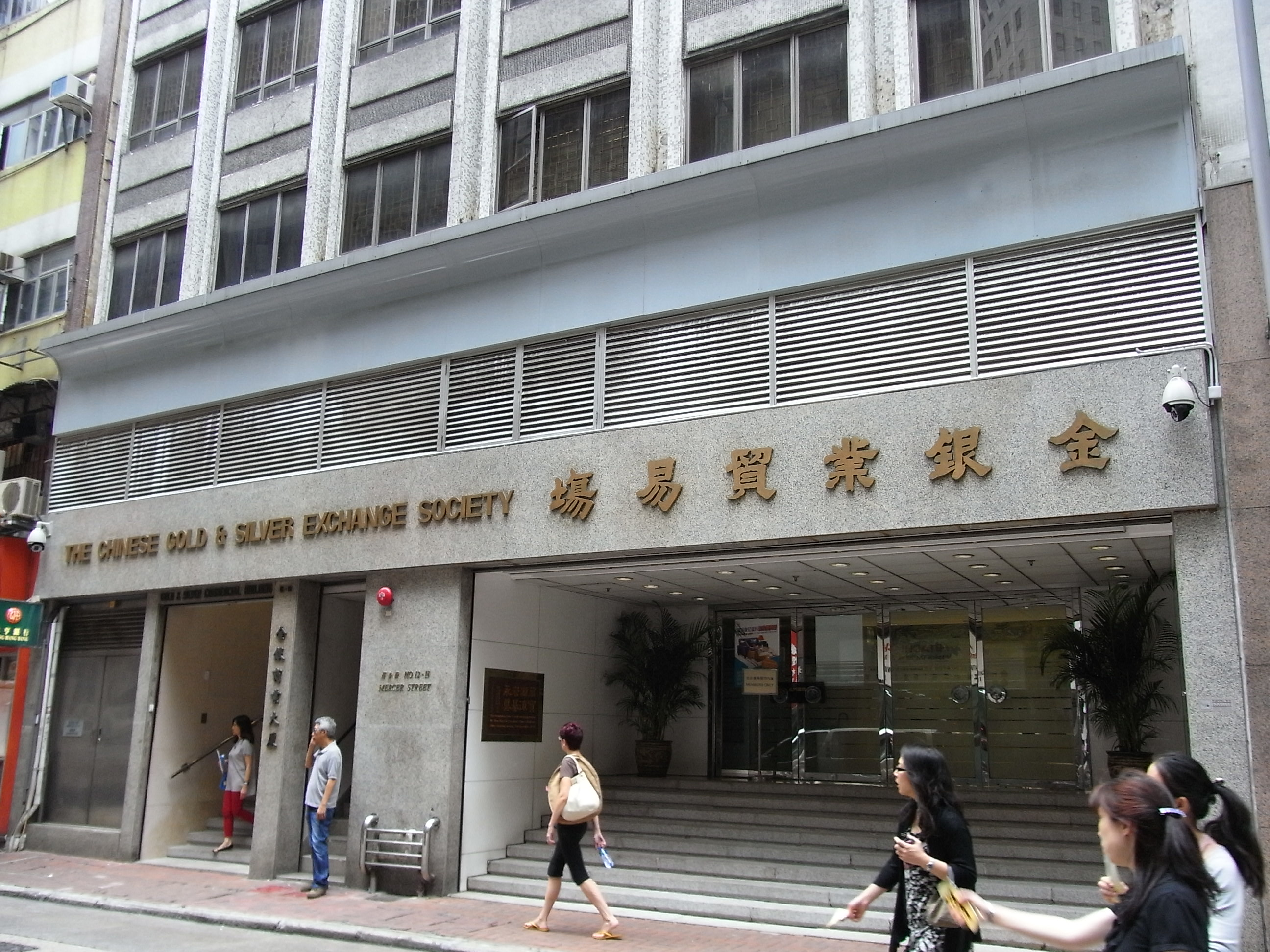 8-10 Mercer Street, 金銀業貿易場, Chinese Gold & Silver Exchange Society, Gold & Silver Exchange Commercial Building, Sheung Wan, Hong Kong